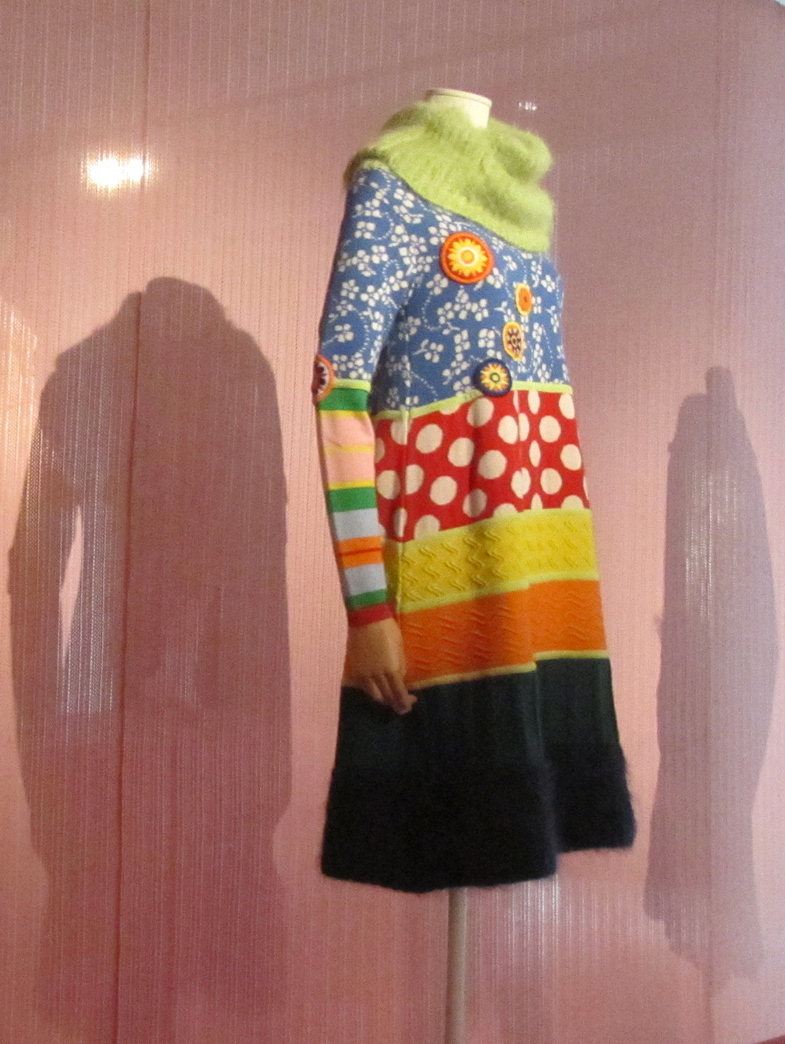 Knitwear exhibition ONTRAFEL. Tricot in de Mode at the Fashion Museum (ModeMuseum, MOMU) in Antwerp, Belgium. The design is a dress by Walter Van Beirendonck, inspired by the colourful clothing of the Hui'an women of Quanzhou, China.